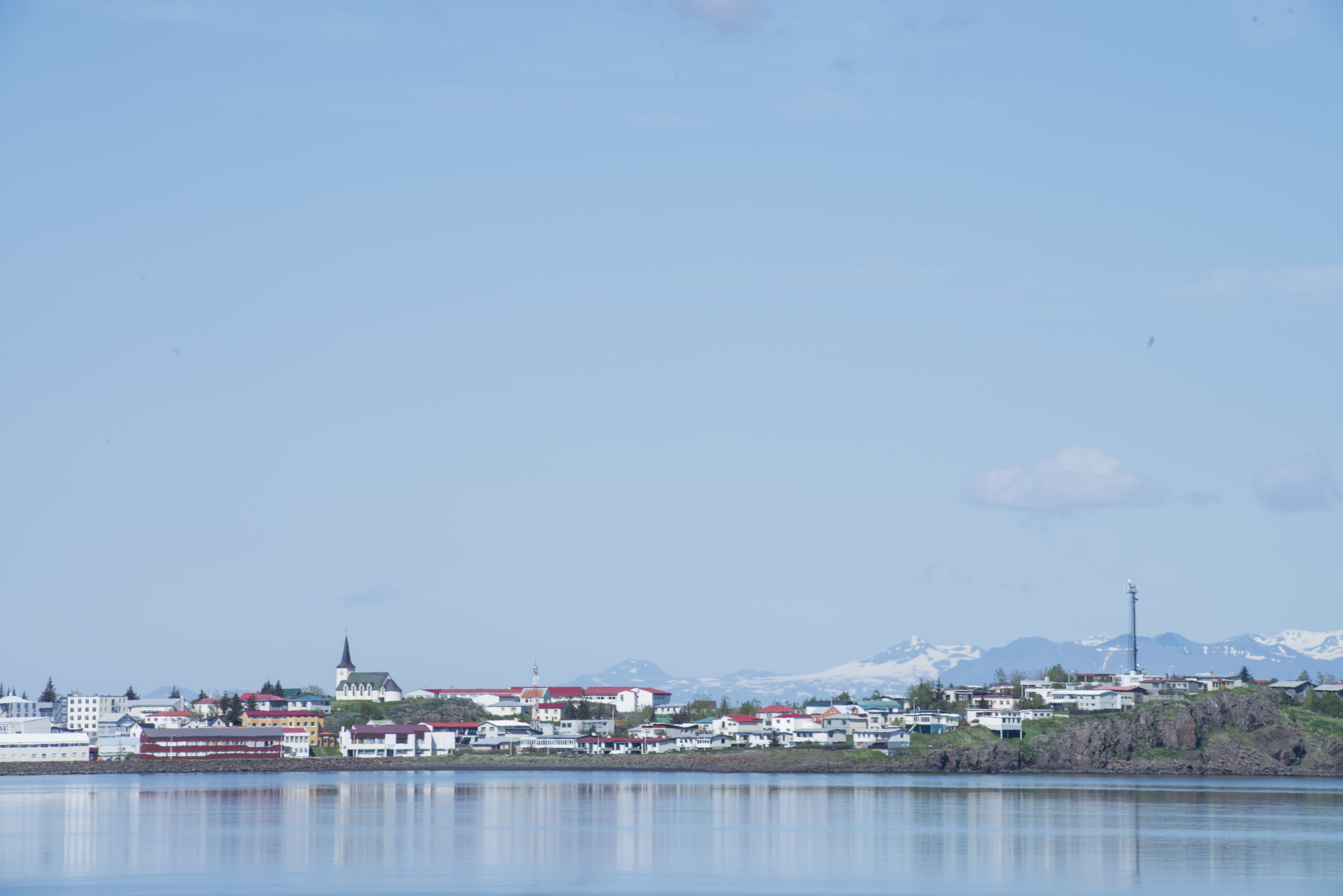 The city of Borgarnes as seem from the south, driving up on Route 1.